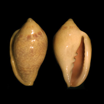 Species: Marginella glabella (Linné, 1758) Specimen: Luis Ferreira collection data: dredged offshore Dakar, Senegal L 42mm